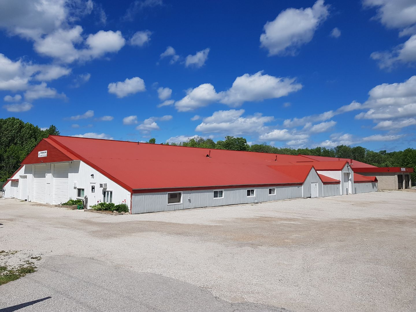 The former Vandestadt and McGruer building, photographed on 11 June 2020. The building is a now a Payless Self Storage facility.